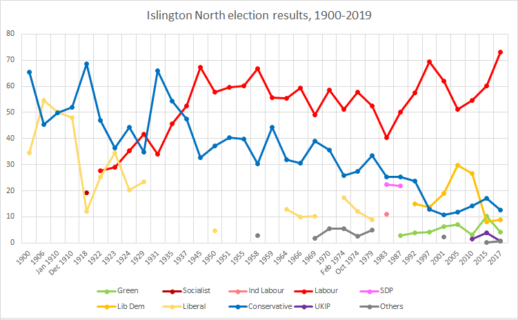 Islington North election results